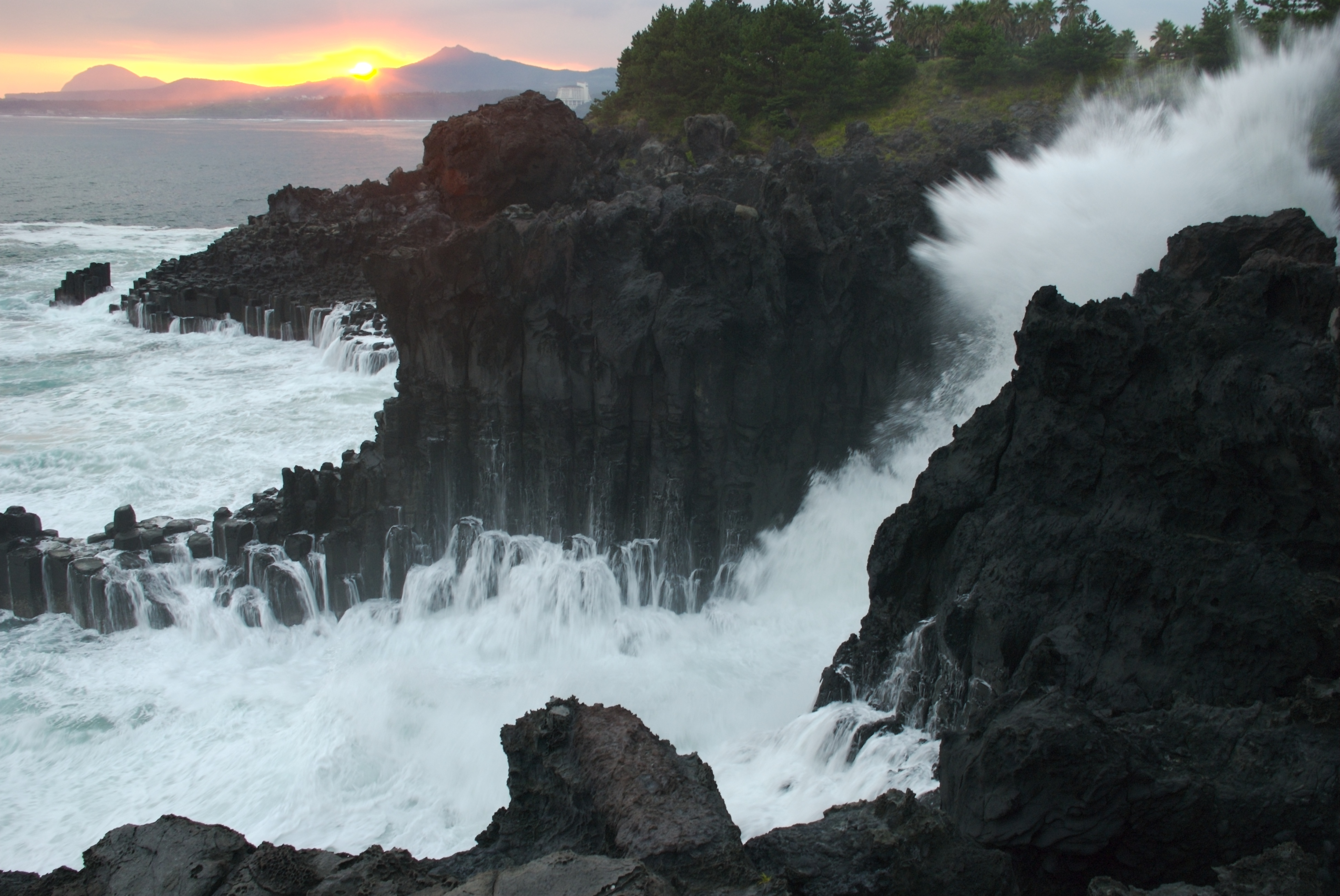 Waves crashing against Jungmun Daepo Jusang Jeollidae, the columnar joints in Jungmun, Jeju-do, South Korea. The winds were strong when the photograph was taken.